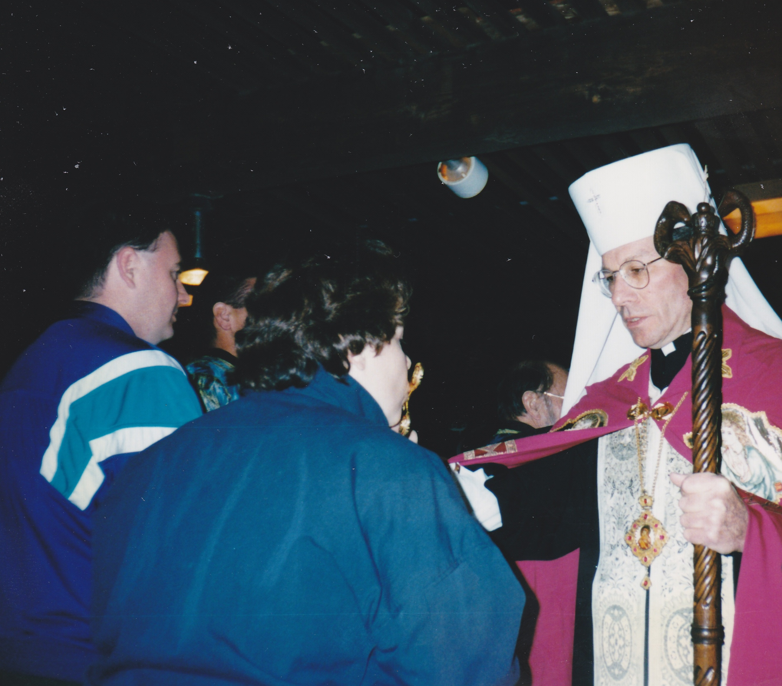 Metropolitan Judson Procyk of the Ruthenian Byzantine Catholic Church holds the cross for veneration after Vespers at a pilgrimage at Holy Resurrection Monastery, an Eastern Catholic monastery in California. This is the first time he has worn the white klobuk.